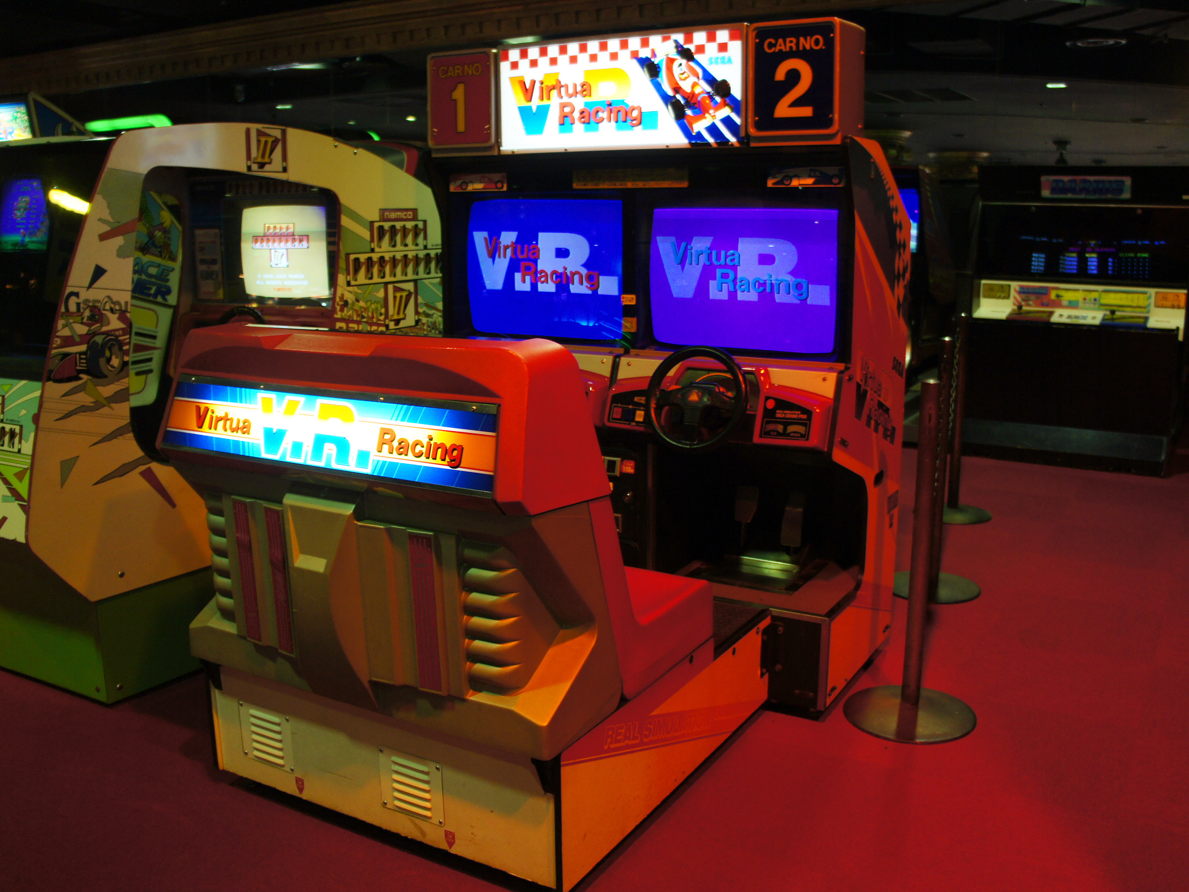 V.R. Virtua Formula. Twin Type.